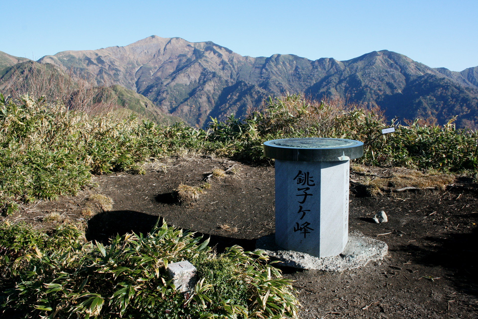 Bessan and Mount Minamihaku from Mount Choshi